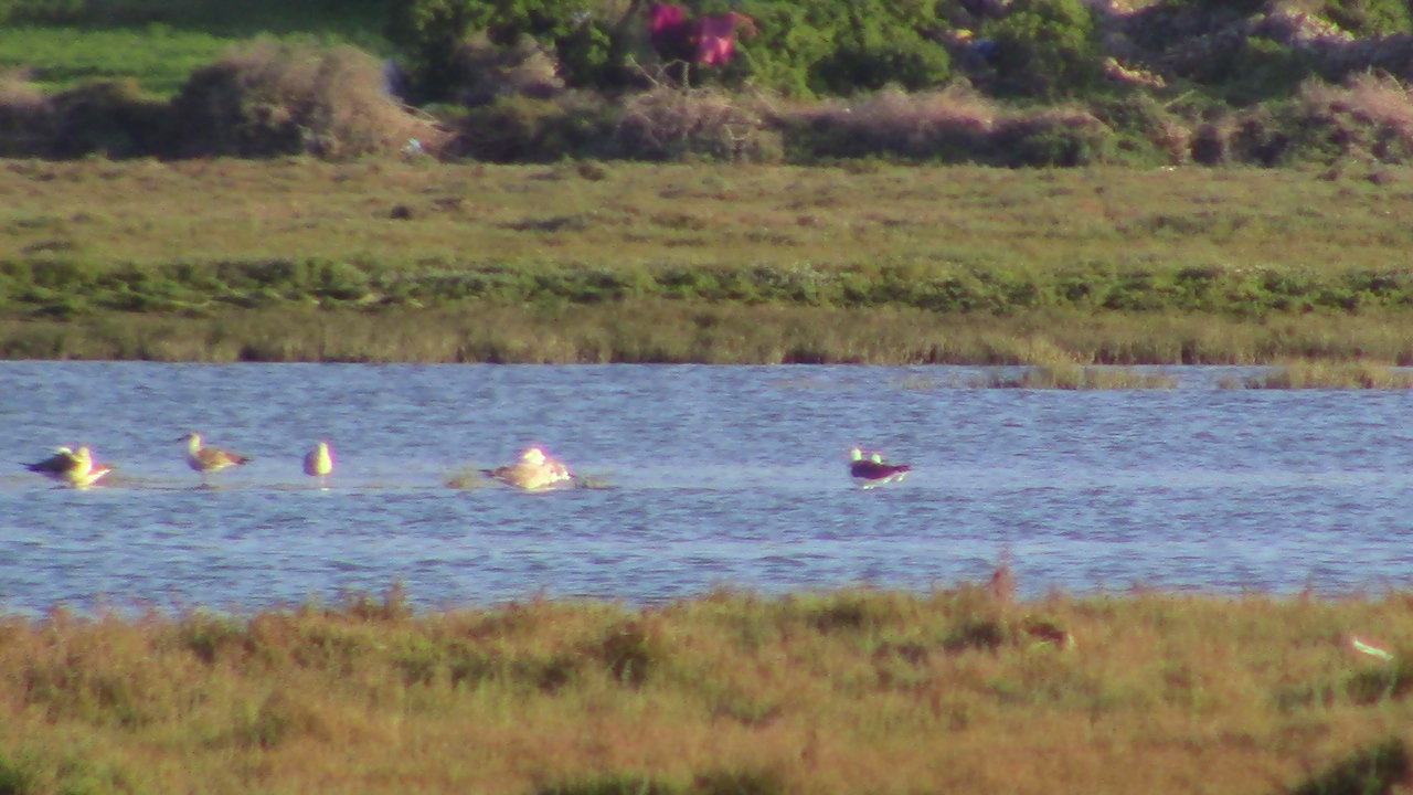 Sidi Moussa Lagoon Nature Preserve - View